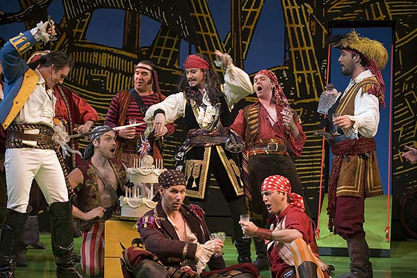 Opera Australia's Pirates of Penzance, photo taken by myself and used with permission.